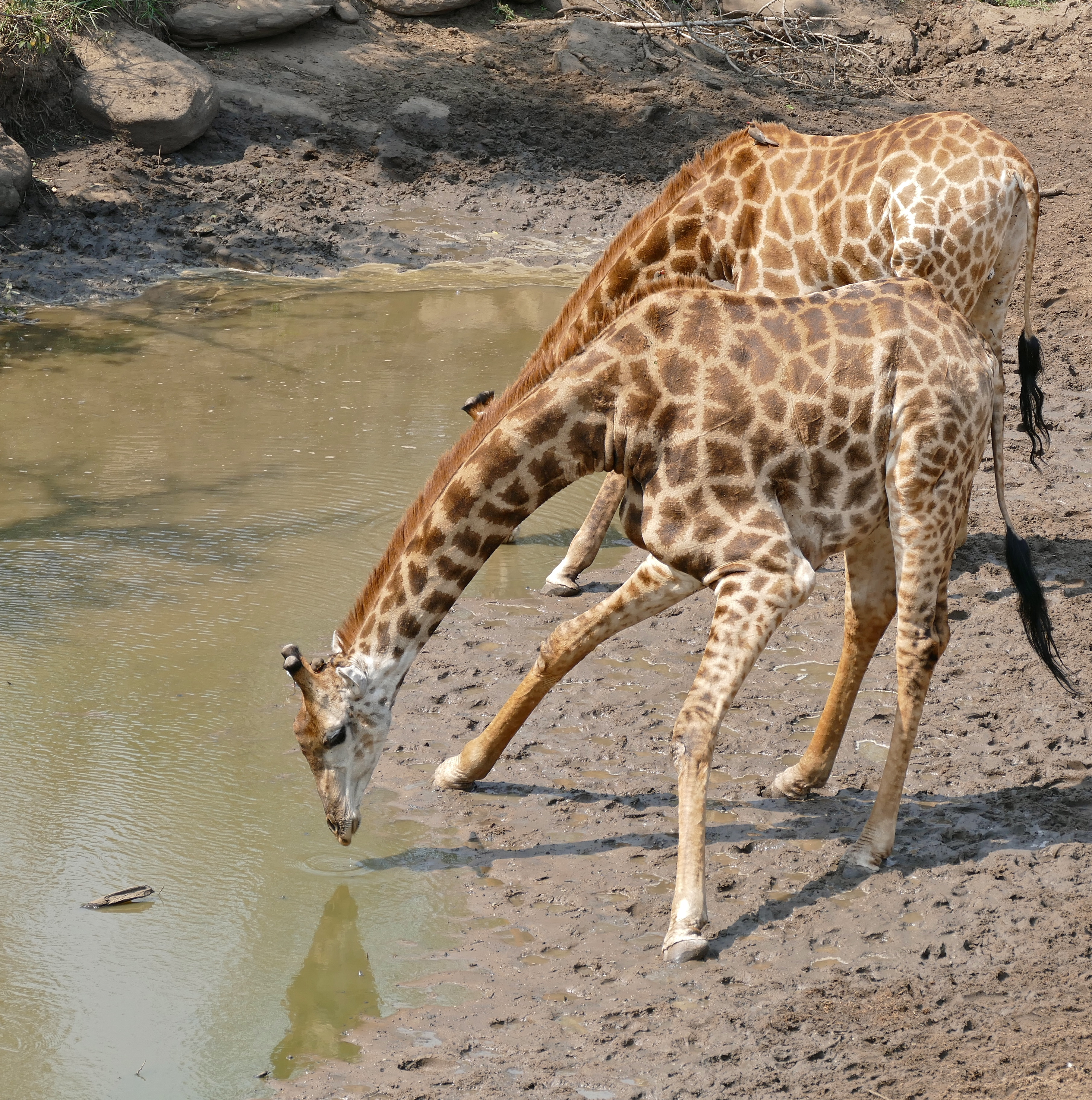 Two bull South African giraffes at Mphafa Hide, iMfolozi Game Reserve, Hluhluwe-iMfolozi Park, Kwazulu-Natal, SOUTH AFRICA